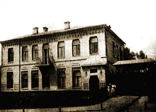 Building designed by Ukrainian architect-artist Vasyl Krychevsky